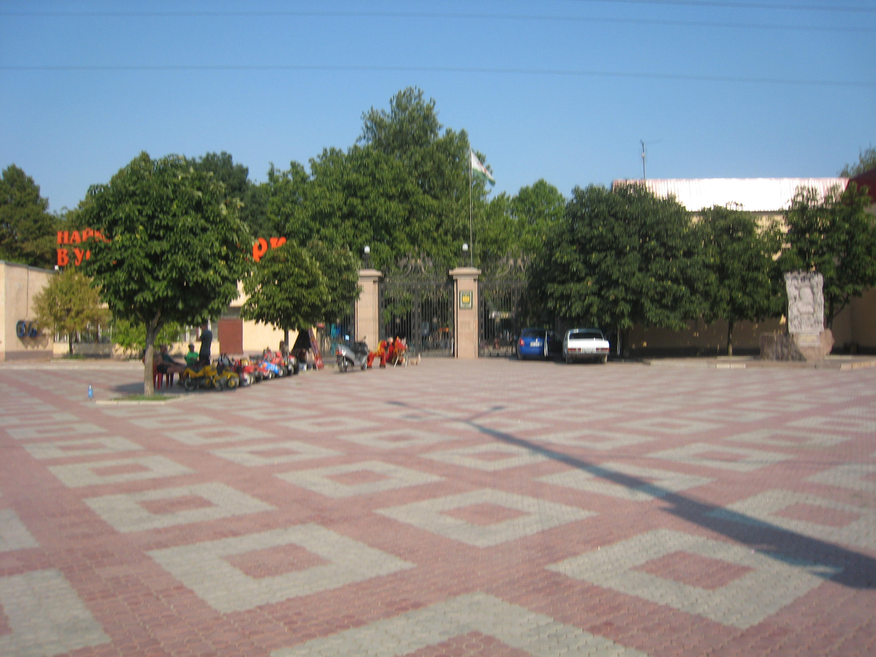 Leontovicha Square in Mykolaiv, Ukraine.